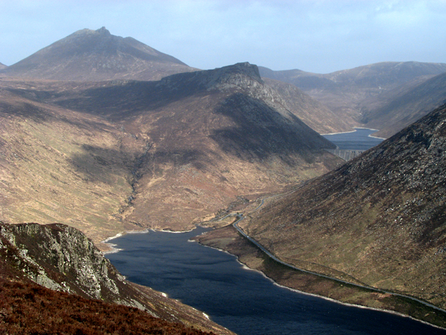 Silent Valley and Ben Crom from Slievenaglogh A view over the Silent Valley and Ben Crom reservoirs from the summit of Slievenaglogh. Ben Crom mountain is in the centre of picture and Slieve Bearnagh is to the top left. The two reservoirs provide water to Belfast and County Down and are capable of supplying around 30 million gallons of water per day.